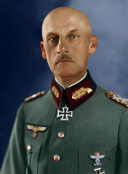 Wilhelm von Leeb. Colored picture.